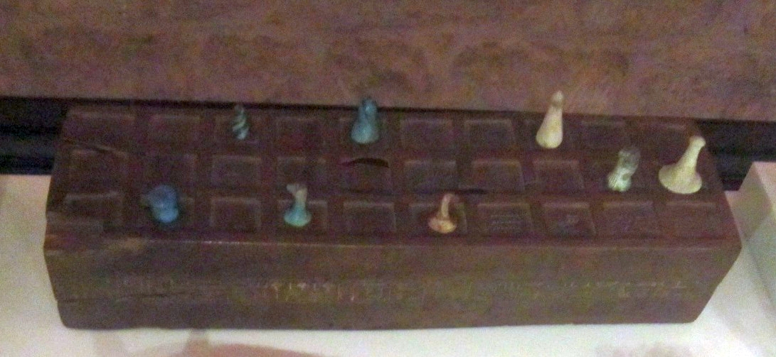 Senet game in Ägyptisches Museum. Berlin